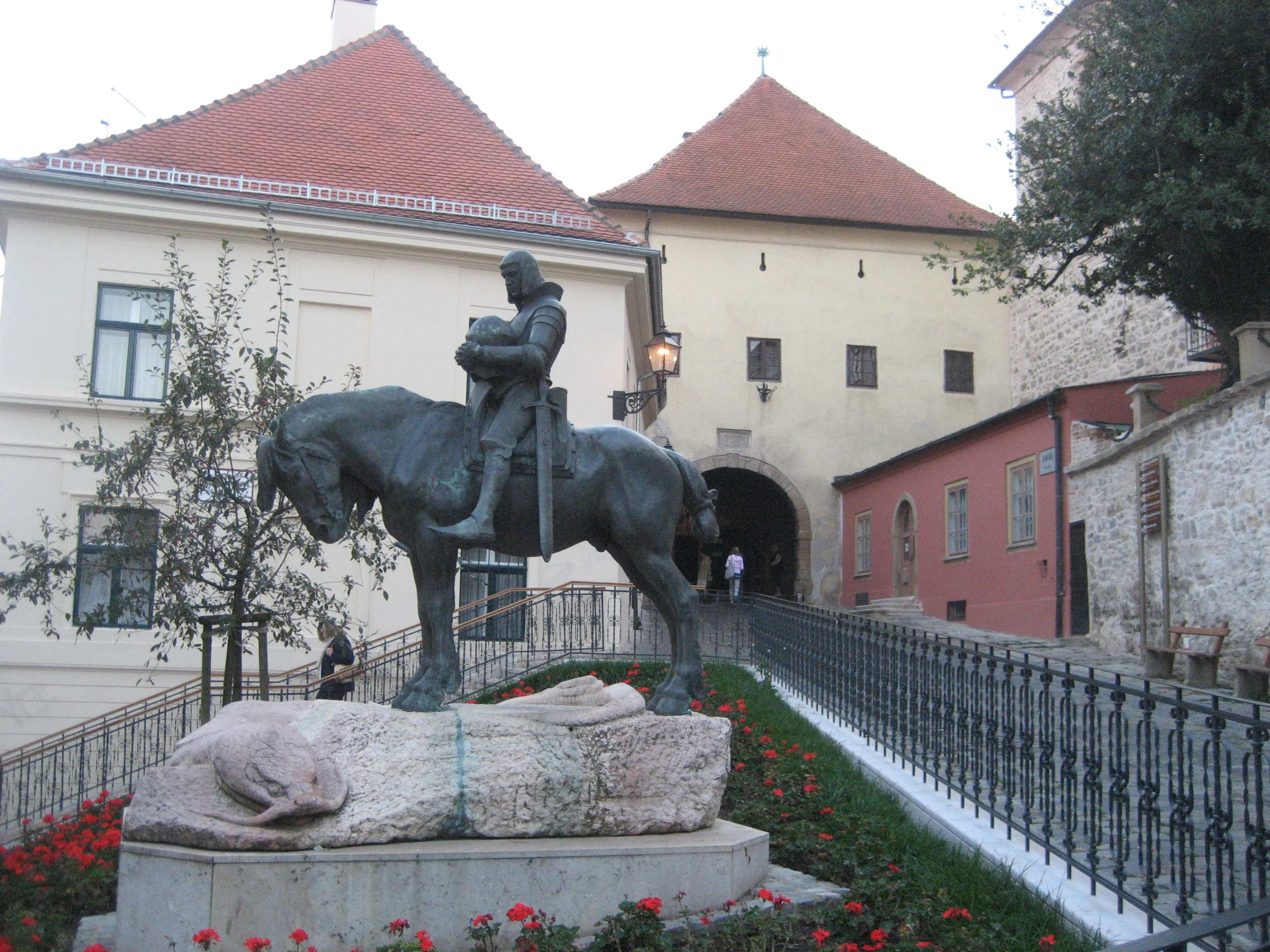 Zagreb, Old town